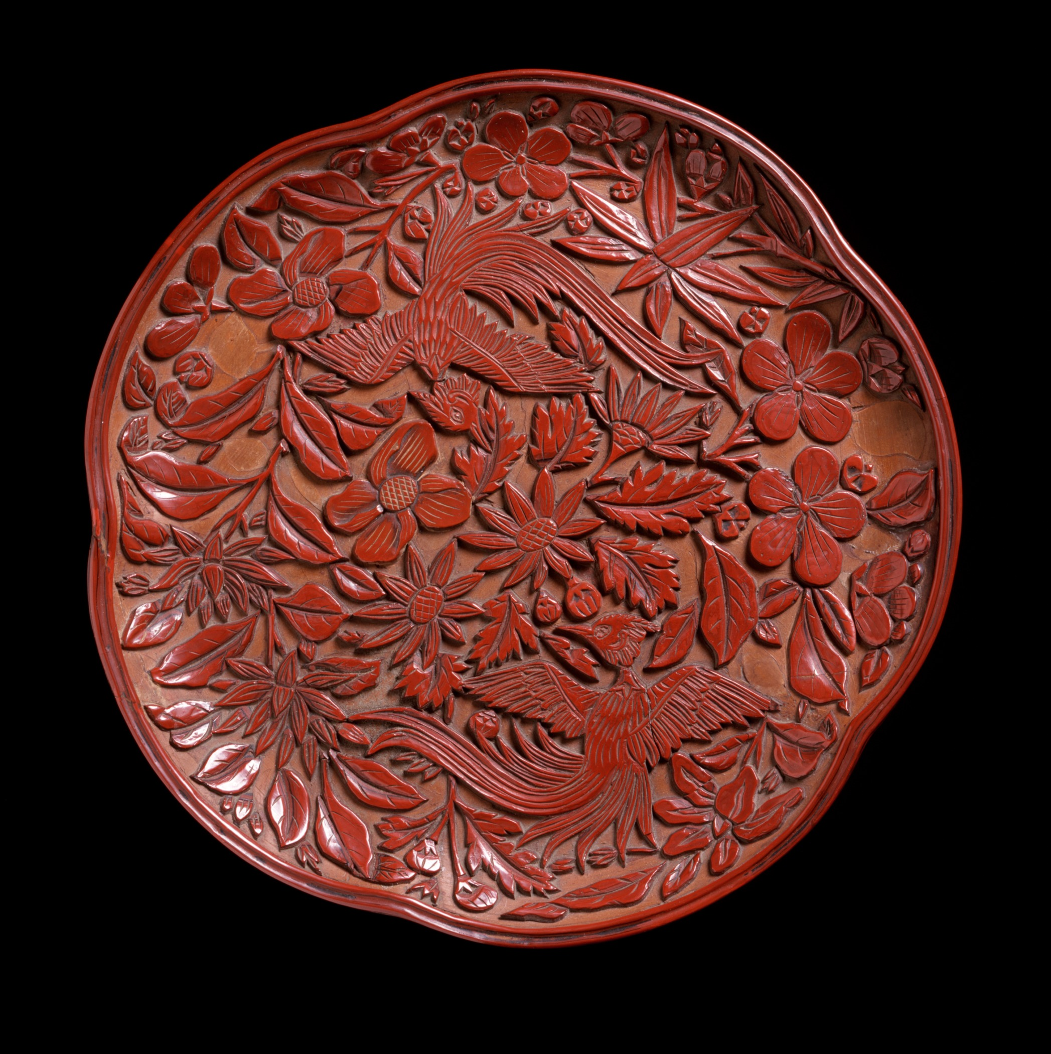 China, Late Southern Song dynasty, about 1200-1279 Furnishings; Serviceware Carved red lacquer on wood core Gift of Dr. and Mrs. Sam K. Lee (M.86.330) Chinese Art